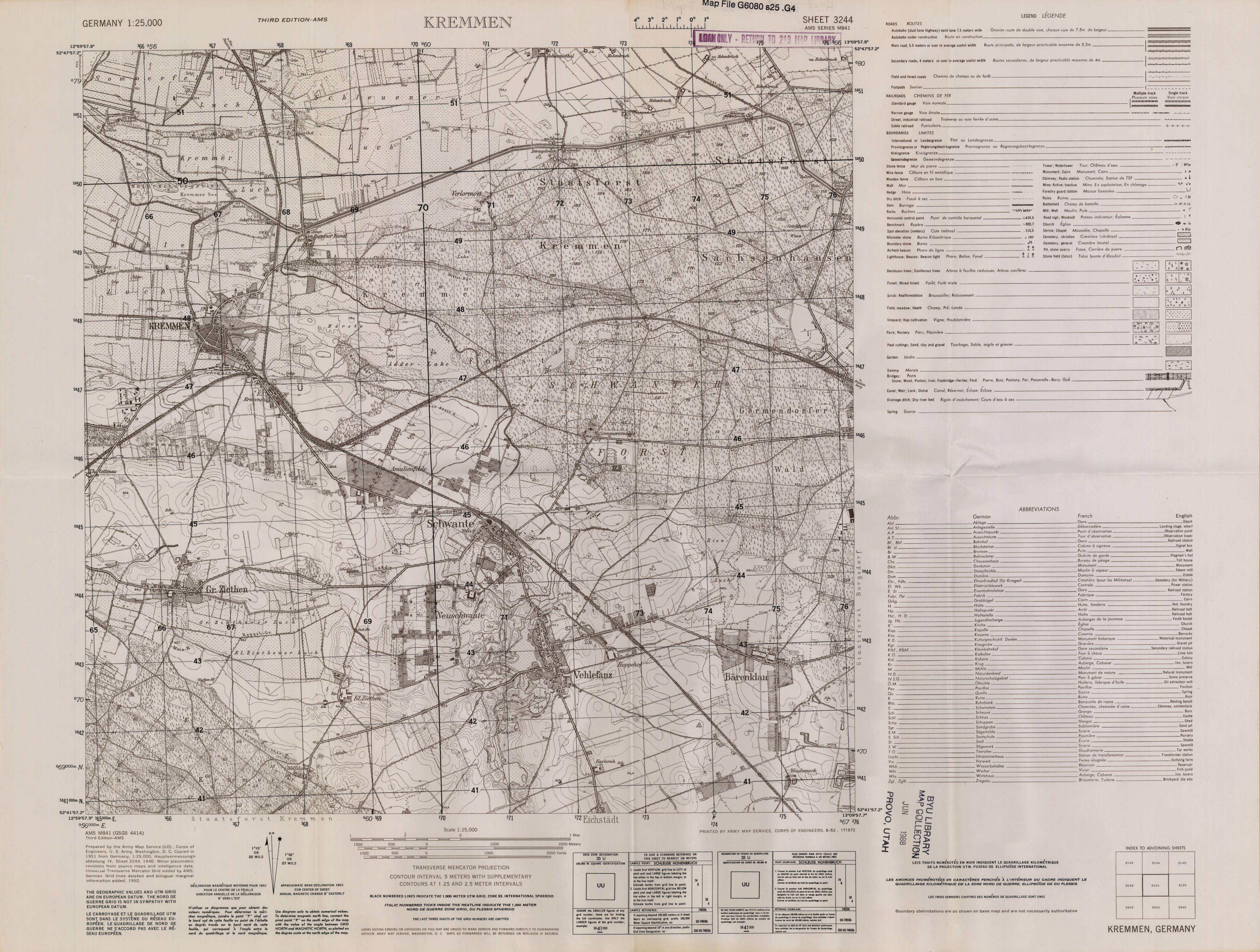 A map of Kremmen and surrounding villages.